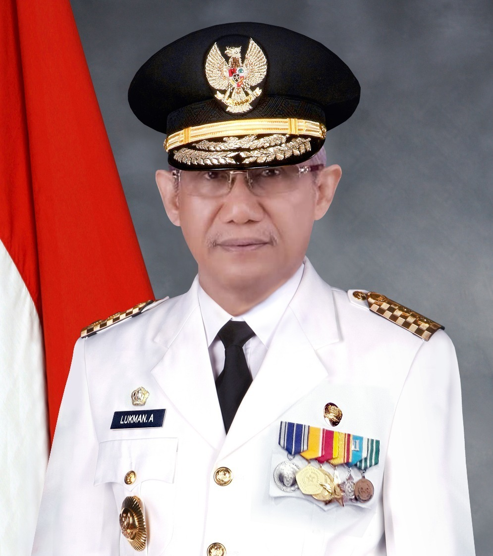 Lukman A as Vice Governor of South East Sulawesi